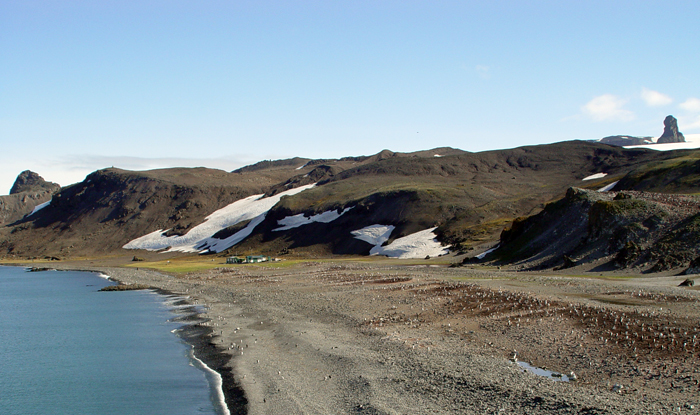 Copacabana beach, King George Island with buildings of Pieter Lenie Antarctic Station visible in the distance on the background of the Rescuers Hills. Near the right border of the image the Czajkowski Needle is visible in the far distance, while the left side of the image features the Sphinx Hill.